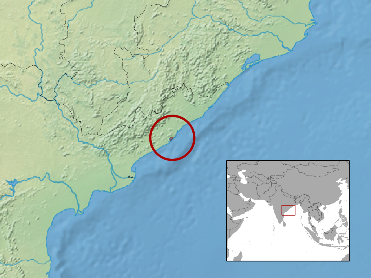 geographic distribution of Barkudia melanosticta